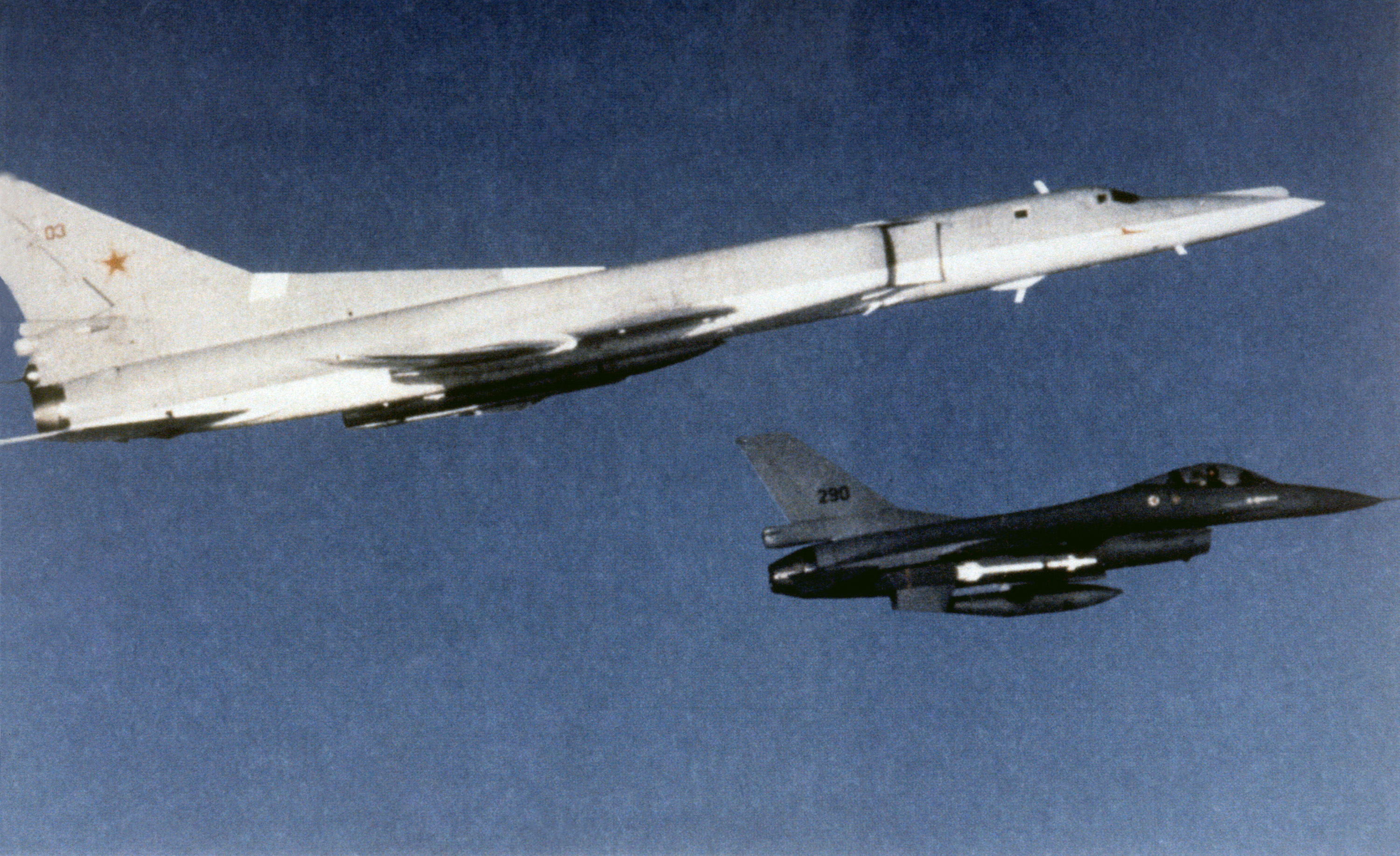 A Royal Norwegian Air Force General Dynamics F-16A Fighting Falcon aircraft escorting a Soviet Tupolev Tu-22M bomber (NATO reporting name "Backfire"). The F-16 is armed with AIM-9 Sidewinder missiles.